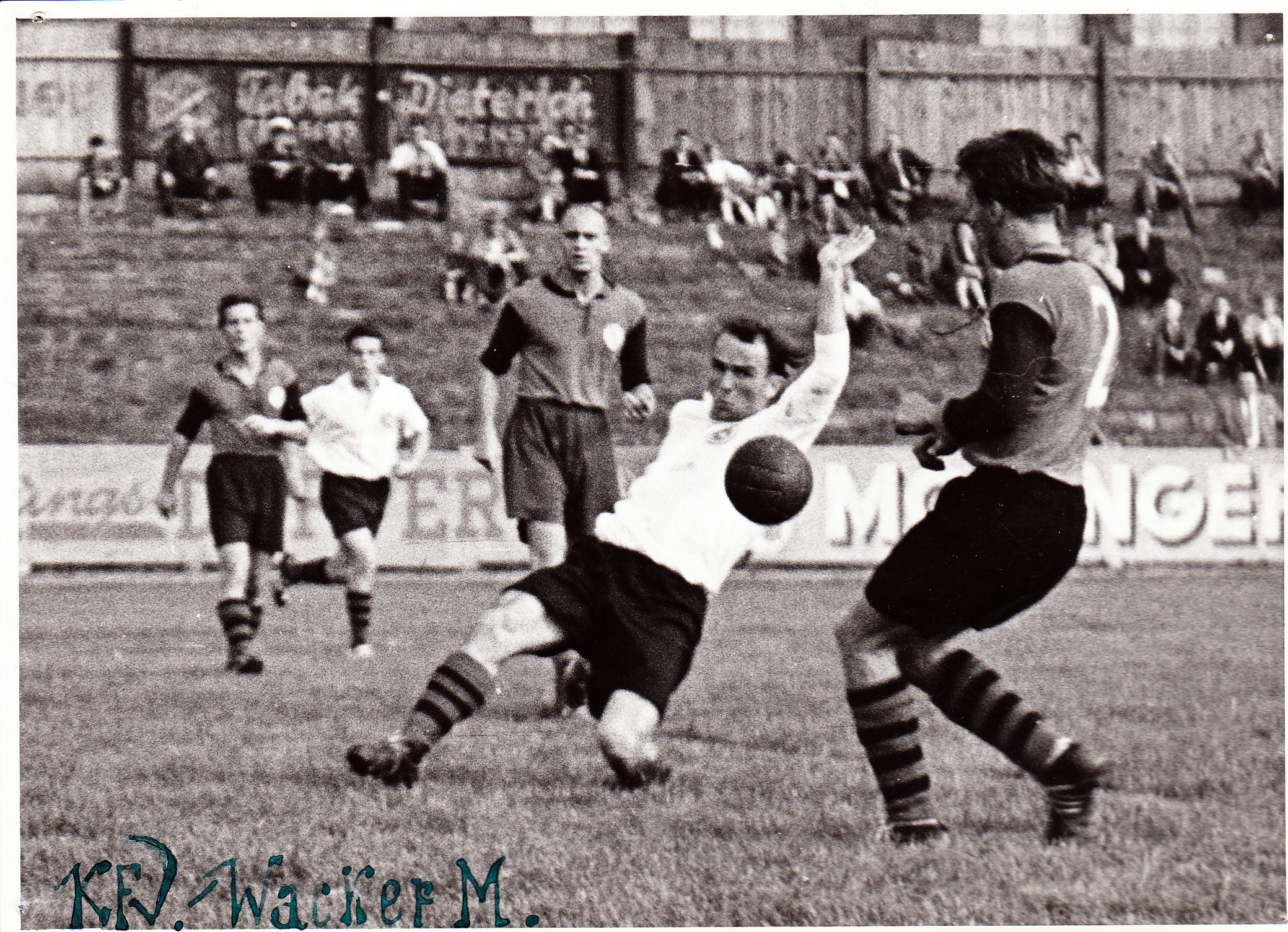 Stutz, striker of the Karlsruher FV during the match against Wacker München